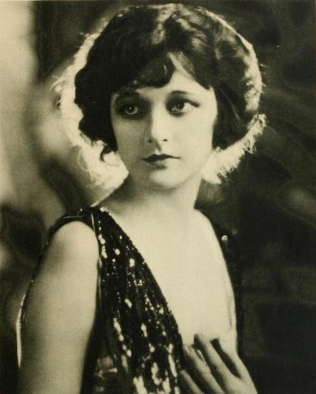 Publicity photo of Eleanor Boardman from Stars of the Photoplay. Eleanor Boardman, a Philadelphia girl, came to the screen through the efforts of a producer to find new faces for pictures. She was selected from 2000 applicants and, because of her intelligence and ability, has in two years advanced rapidly and is now playing leading roles. She was born in Philadelphia on August 19, 1898, and educated at the Philadelphia School of Applied Arts, where she studied interior decorating. She had a brief stage career in vaudeville and musical comedy. She is five feet, six inches tall, weighs 125 pounds, has light brown hair and green eyes.